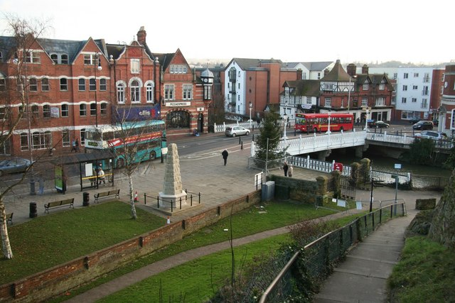 Big Bridge and High Street View from the Castle walls to the Big Bridge over the Medway and High Street